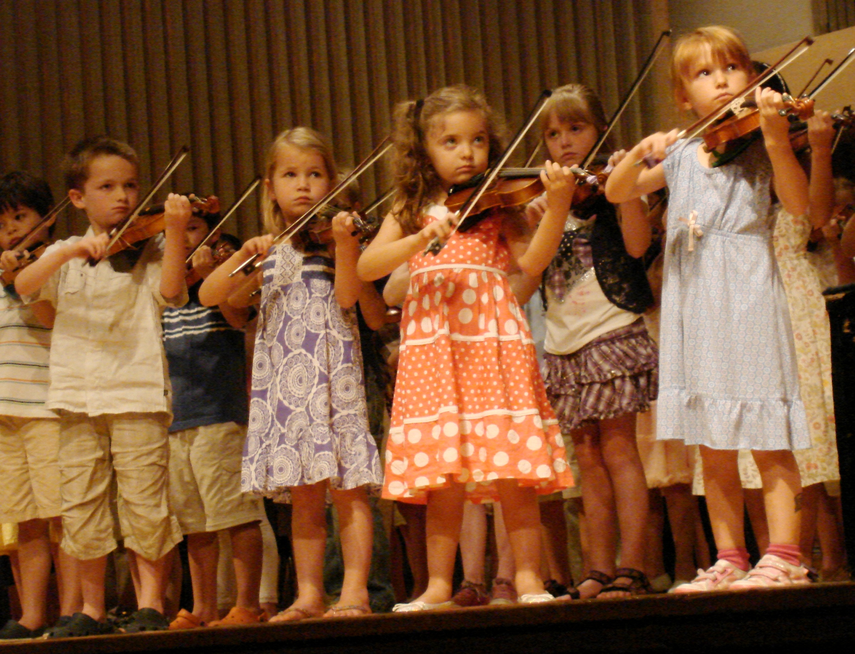 Children playing violin in a group recital, Suzuki Institute, Ithaca